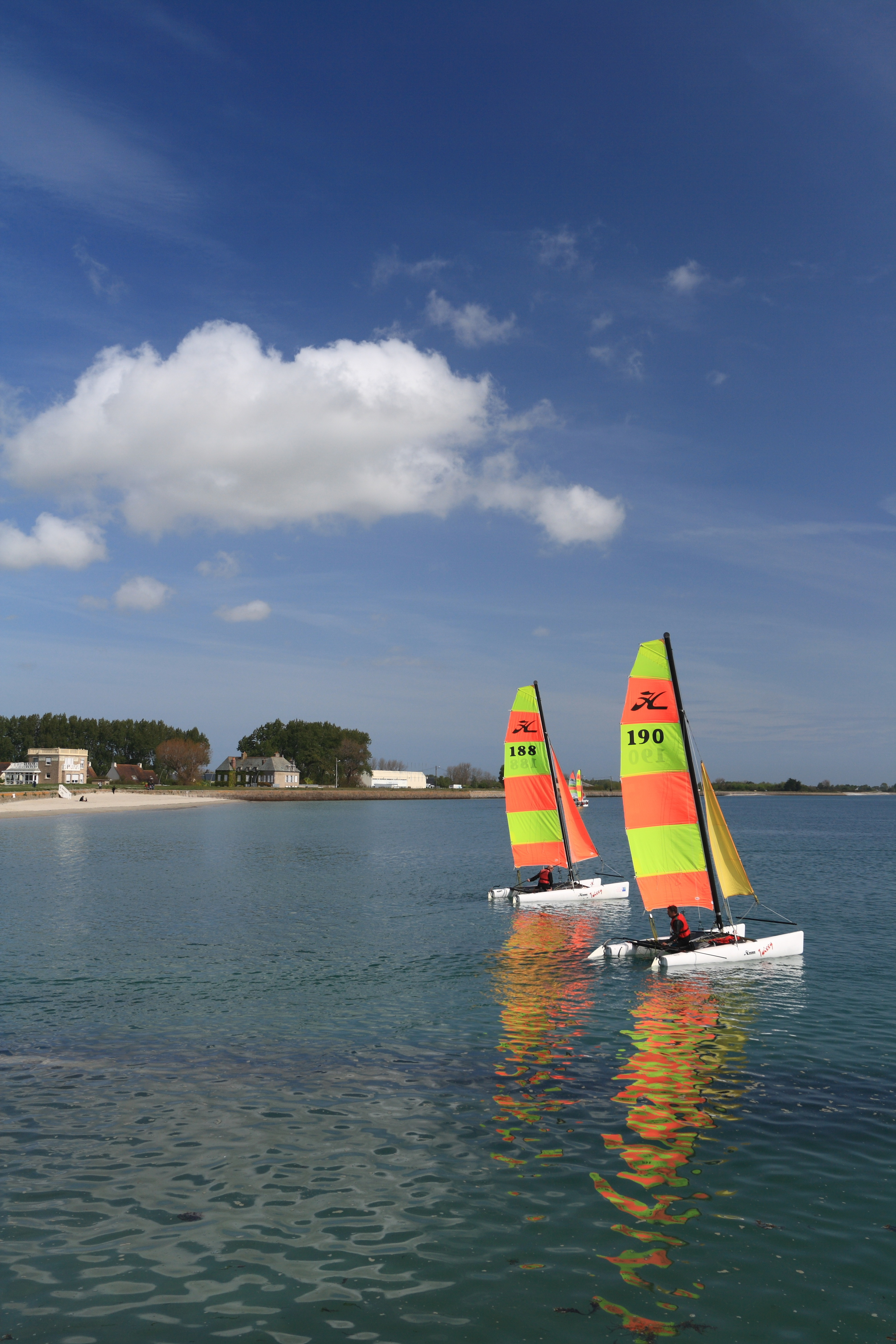 Two catamarans sailboats, leaving Saint-Vaast-la-Hougue harbour, Normandy, France.